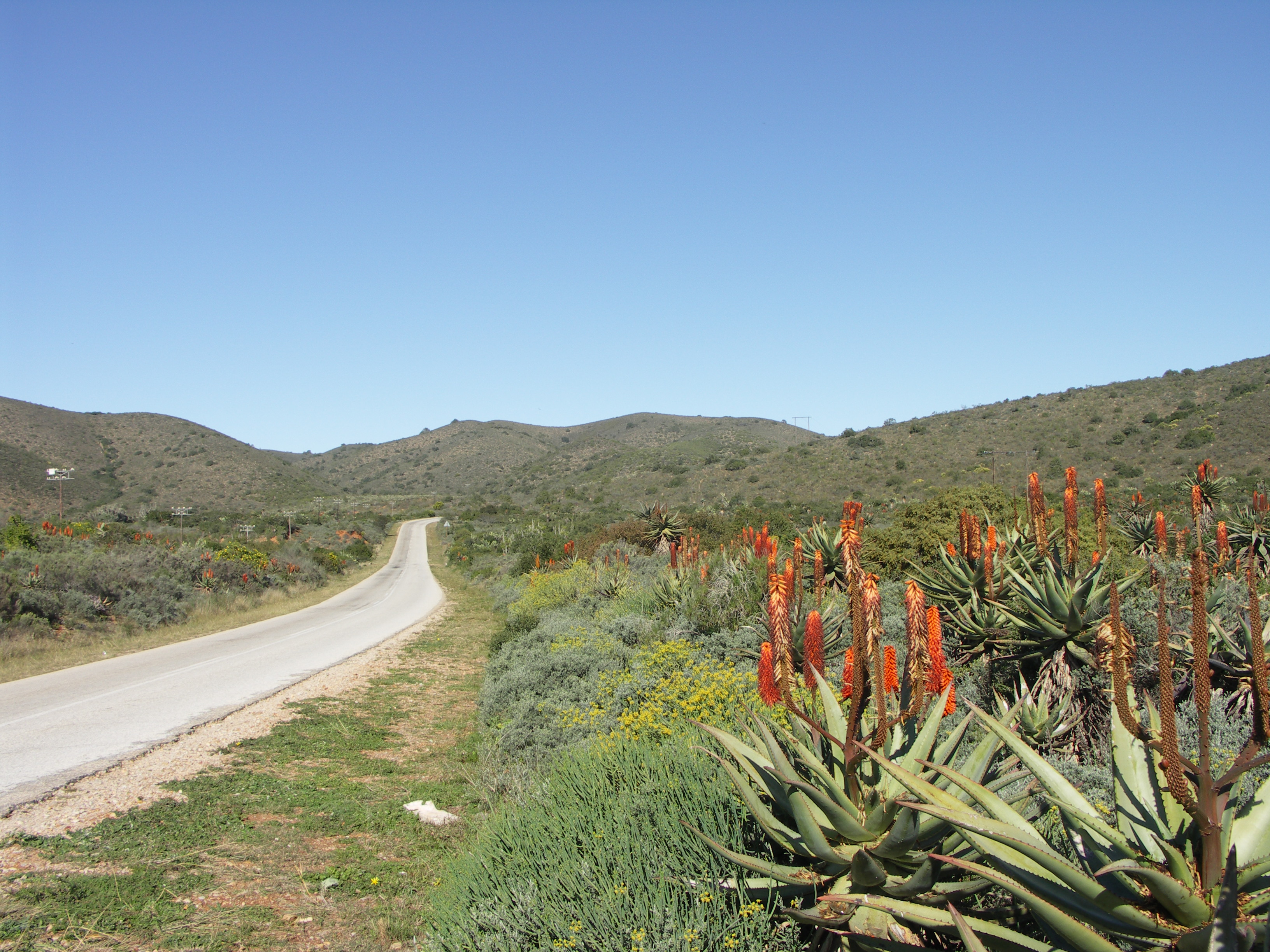 Aloe plants along the R330 in the Eastern Cape, South Africa